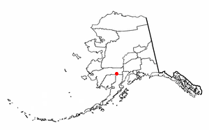 Adapted from Wikipedia's AK borough maps by Seth Ilys.